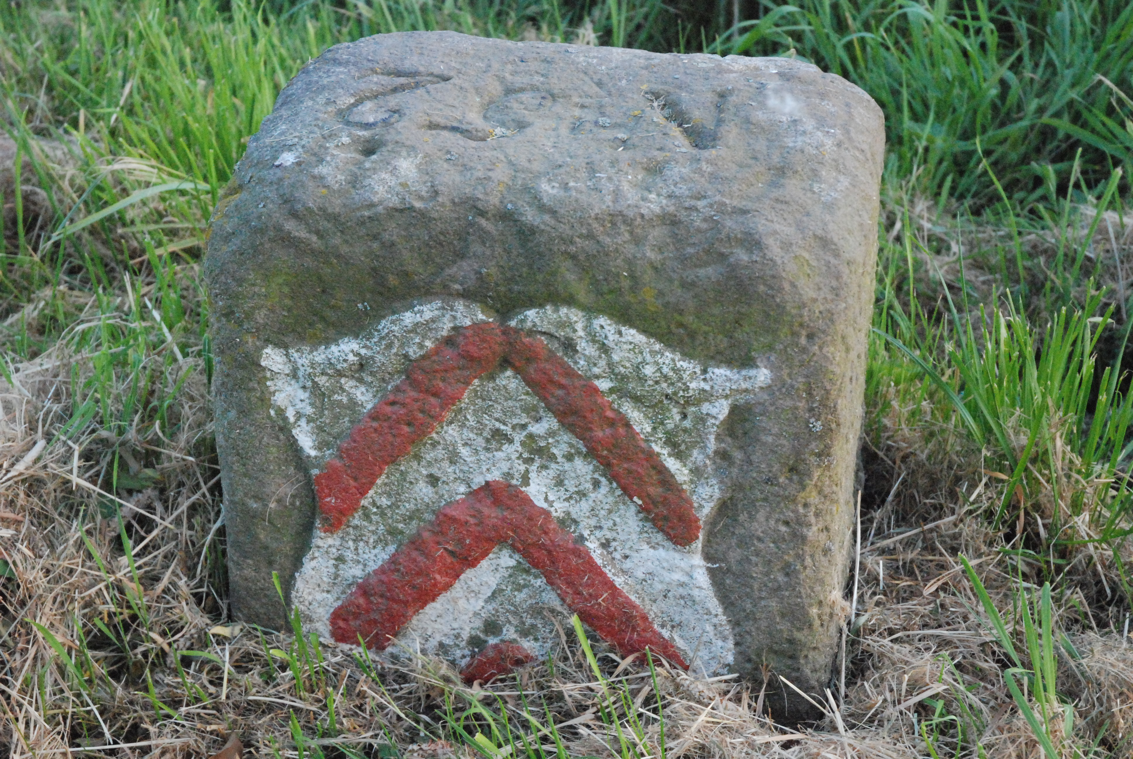 1860 boundary stone between former free states of Lippe and Prussia near Bad Salzuflen, District of Lippe, North Rhine-Westpalia, Germany.